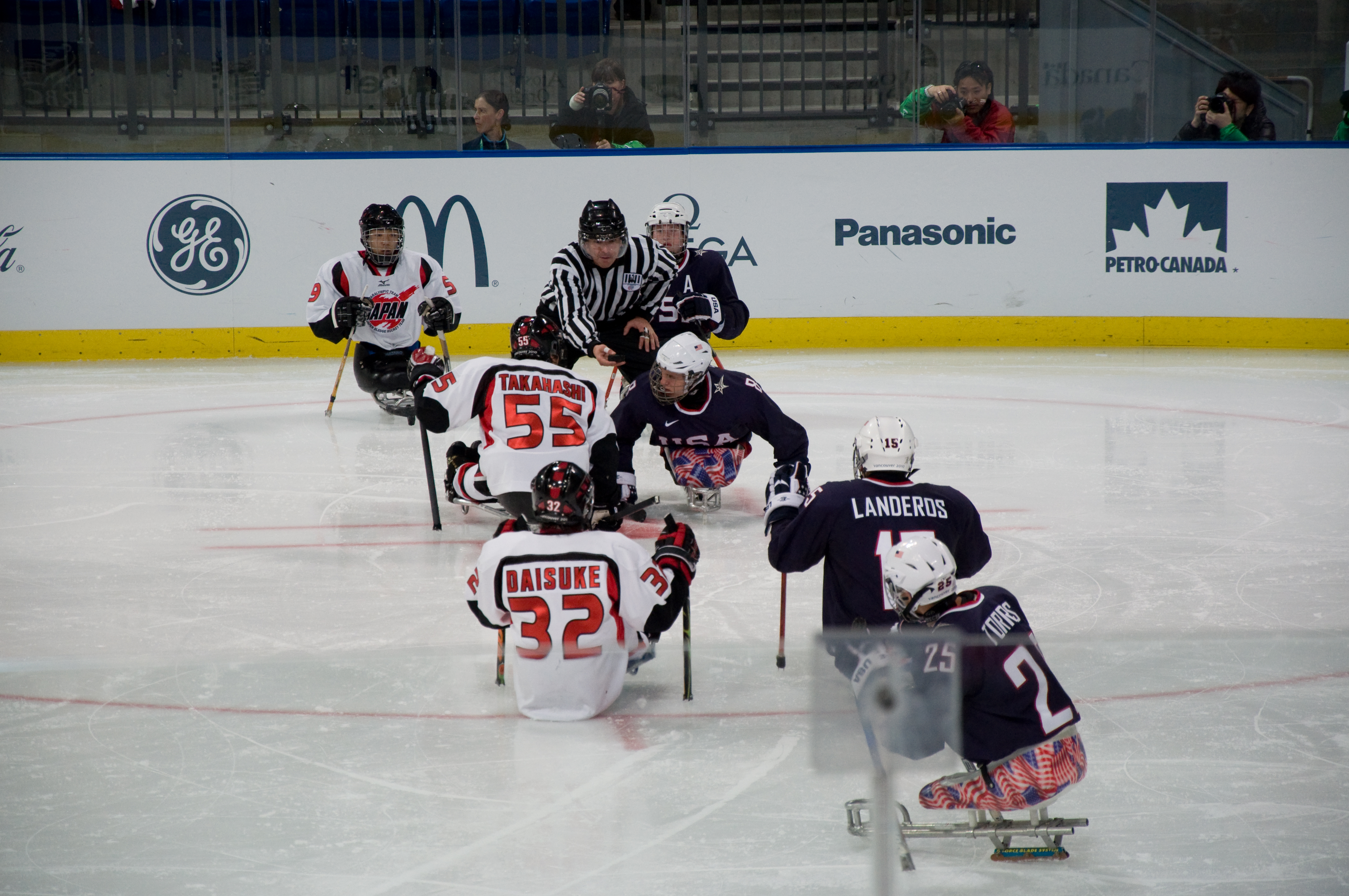 Ice Sled Hockey team United States (blue shirts) vs Japan (white shirts) during the 2010 Paralympics in Vancouver. Group round, Group A, March 16, 2010.